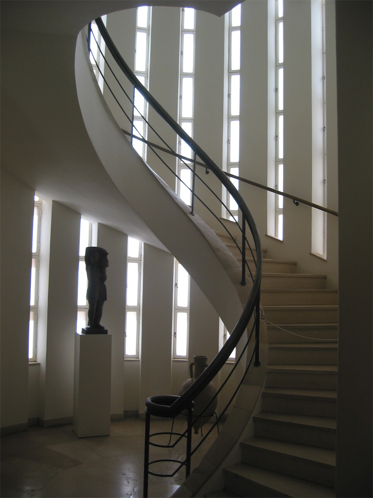 Weizmann House, Weizmann Institute, Rewhovot, Israel